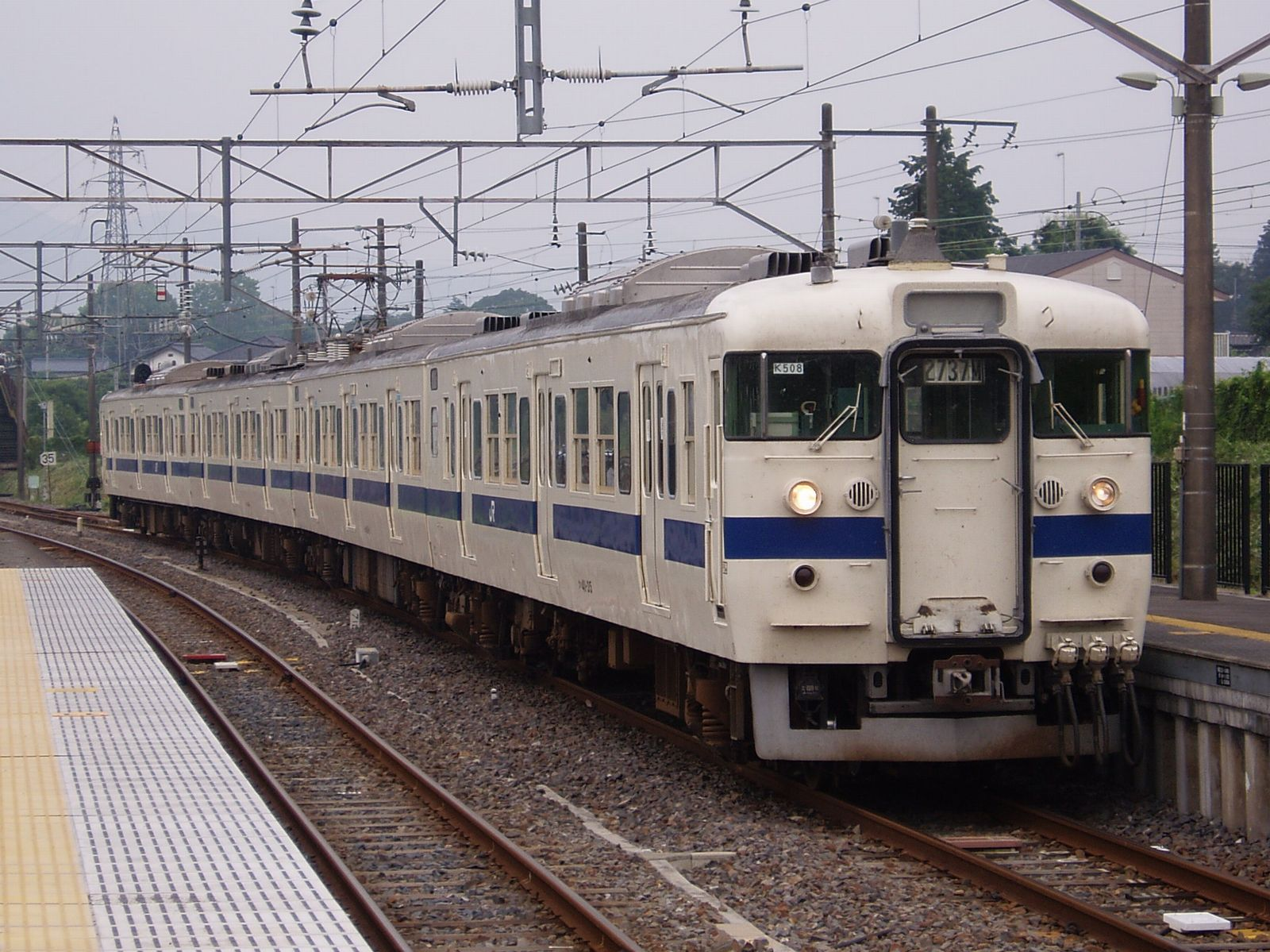 East Japan Railway Company, EMU Type 415 Mito Line at Tomobe Sta.